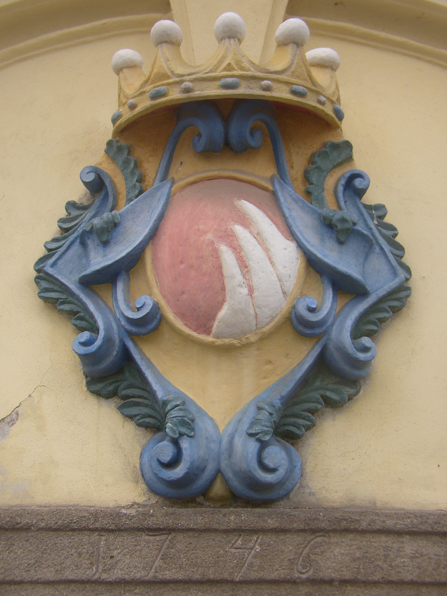 Coat of arms of House of Kinský above granary entrance in Želevčice (part of Slaný town, Kladno District, Czech Republic).